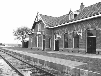 A view of Tzummarum station building, following restoration.